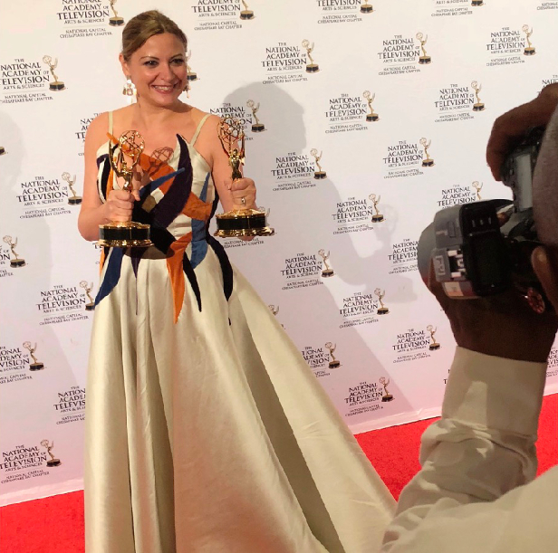 Maria Rozman at the 2018 National Capital/Chesapeake Bay Emmy Awards